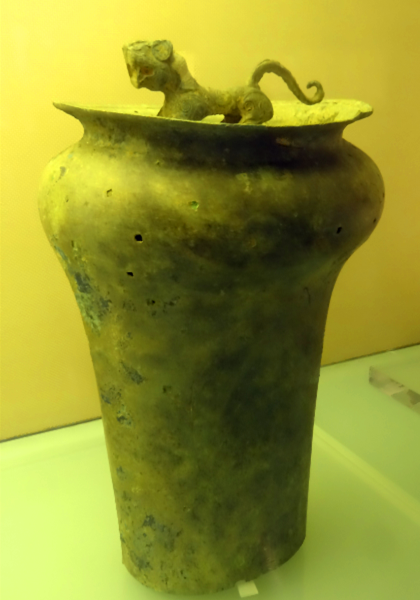 Bronze Tiger-button Chunyu, musical instrument, the Warring States Period (475-221B.C.), unearthed at Xiantianxi, Fuling District, Chongqing City in 1972.